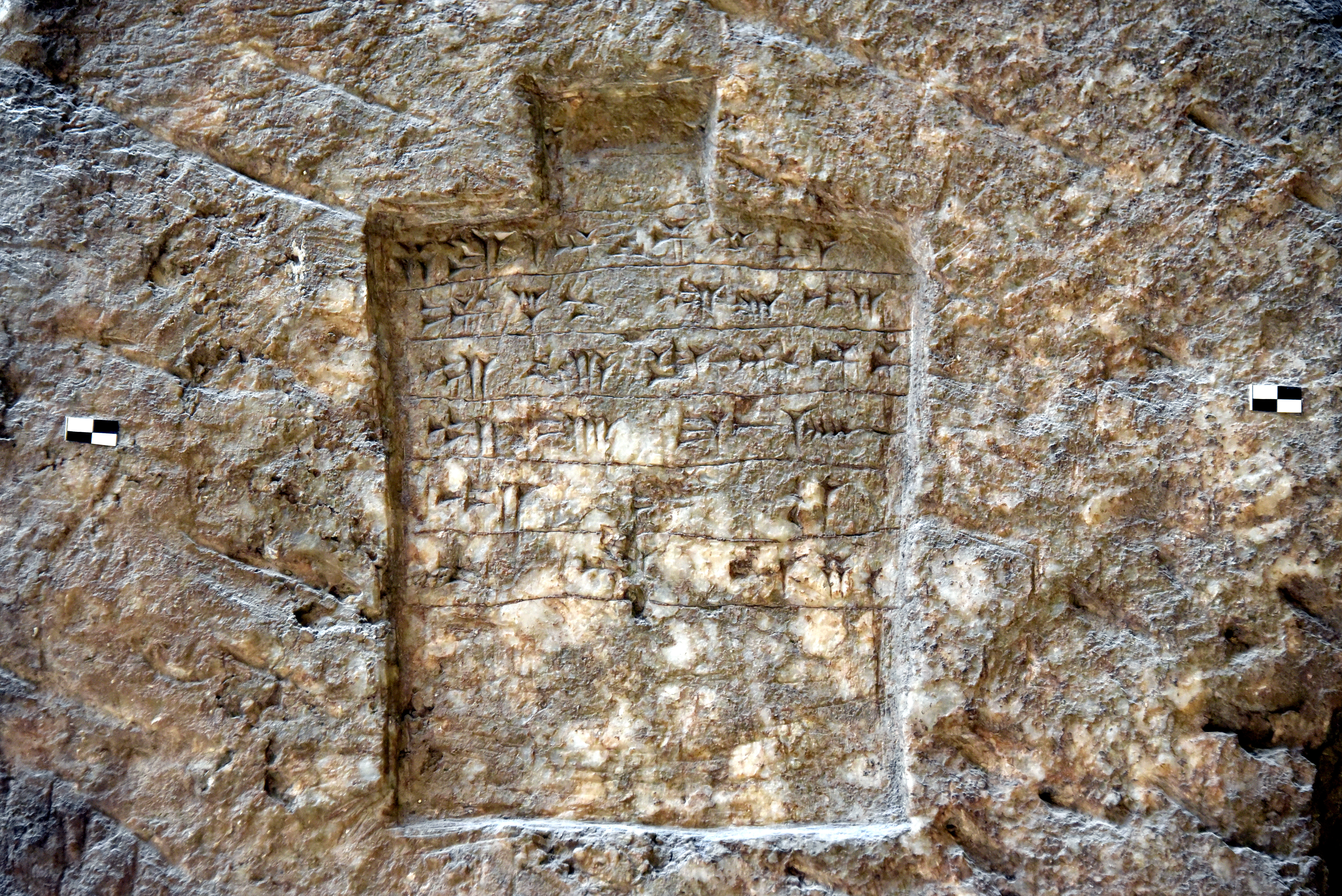 Detail (showing the cuneiform inscription) of the gypsum stele of Adad-bel ukin, governor of the cities of Libbi-ali (Assur), Kar-Tukulti-Ninurta (modern Tulul ul Aqar), Ekallatum, Itu, and Ruhaqu. From the Rows of Stelae (Stelenreihen) at Assur, Iraq. 780 BCE. Pergamon Museum, Berlin, Germany.